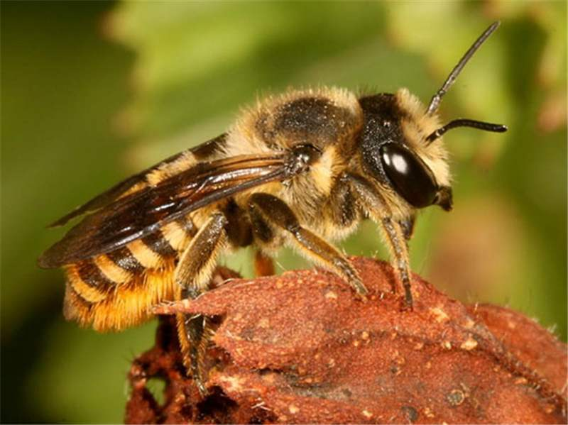 A Megachile Bee.